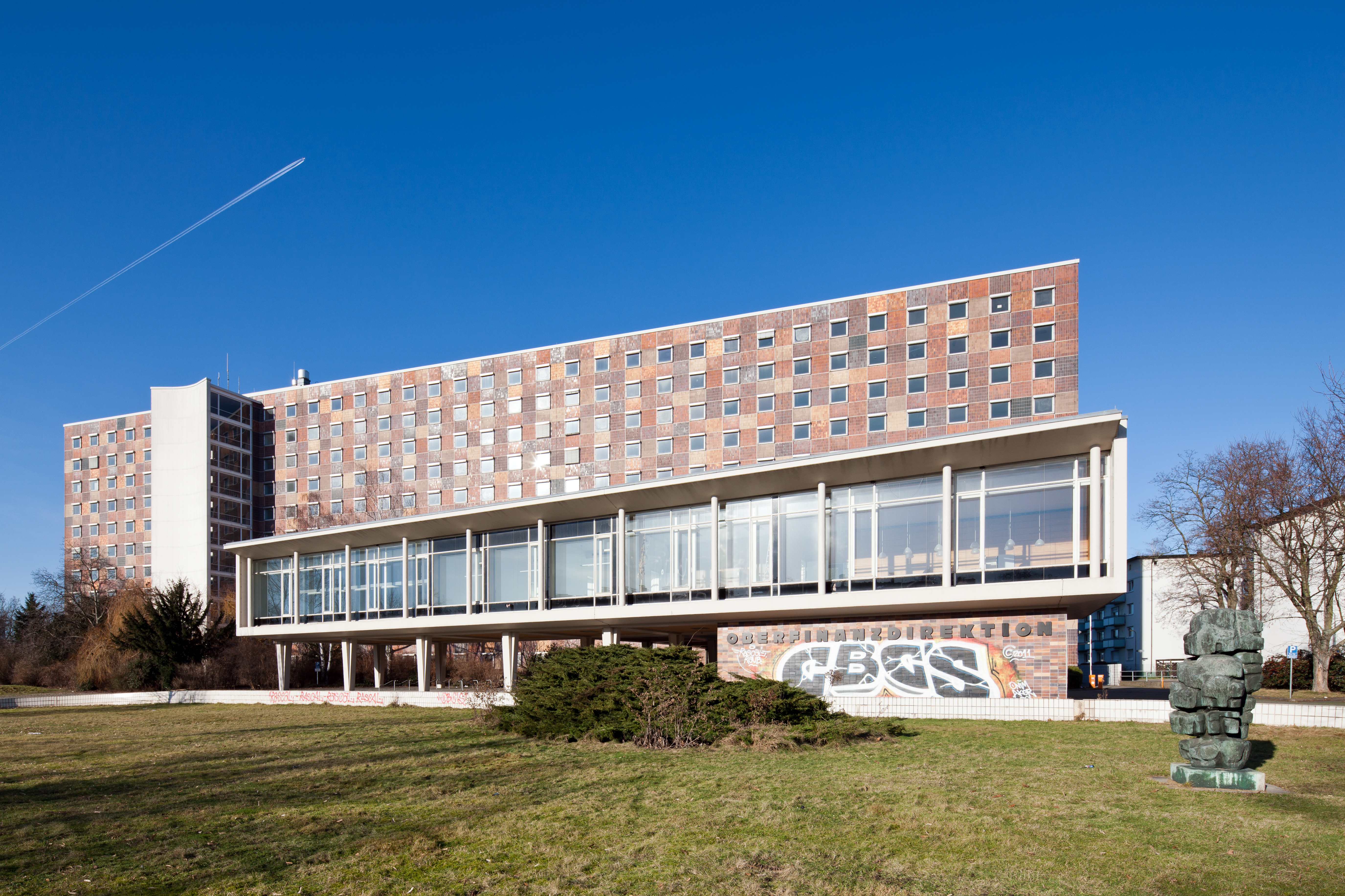 Frankfurt on the Main: Former Oberfinanzdirektion (Upper Finance Directorate) as seen from the southeast